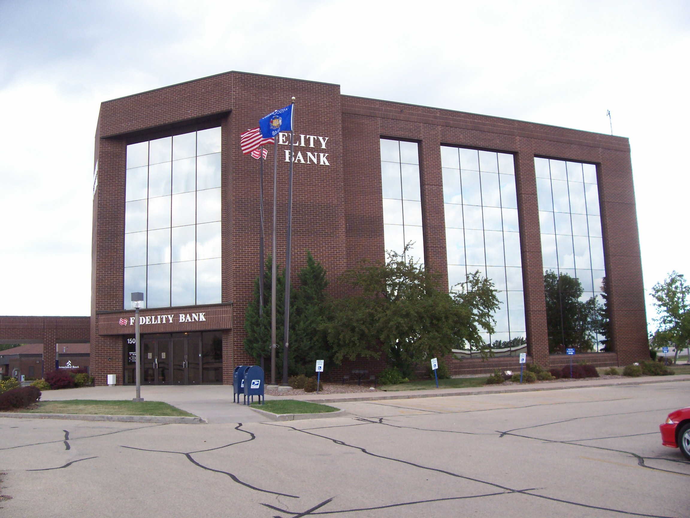 The building that formerly held the WOZZ studios.